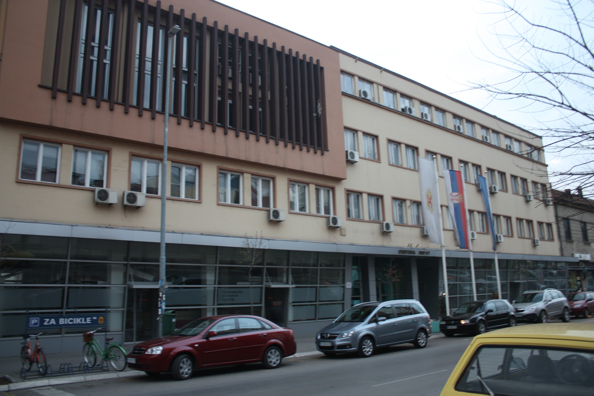 Pirot Municipality hall